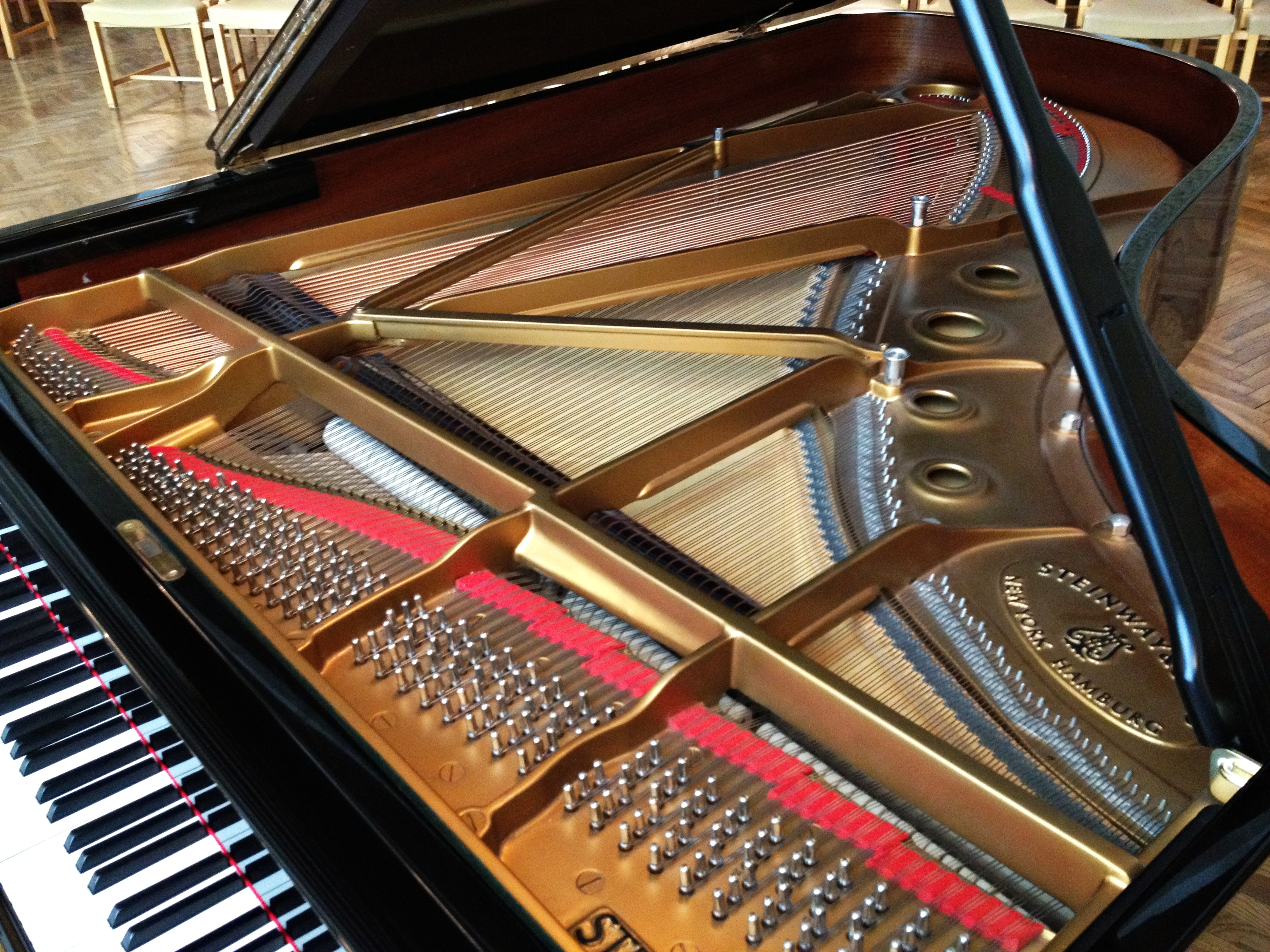 Interior of a Steinway grand piano (model B-211), showing the strings, cast iron plate, soundboard and bridges.